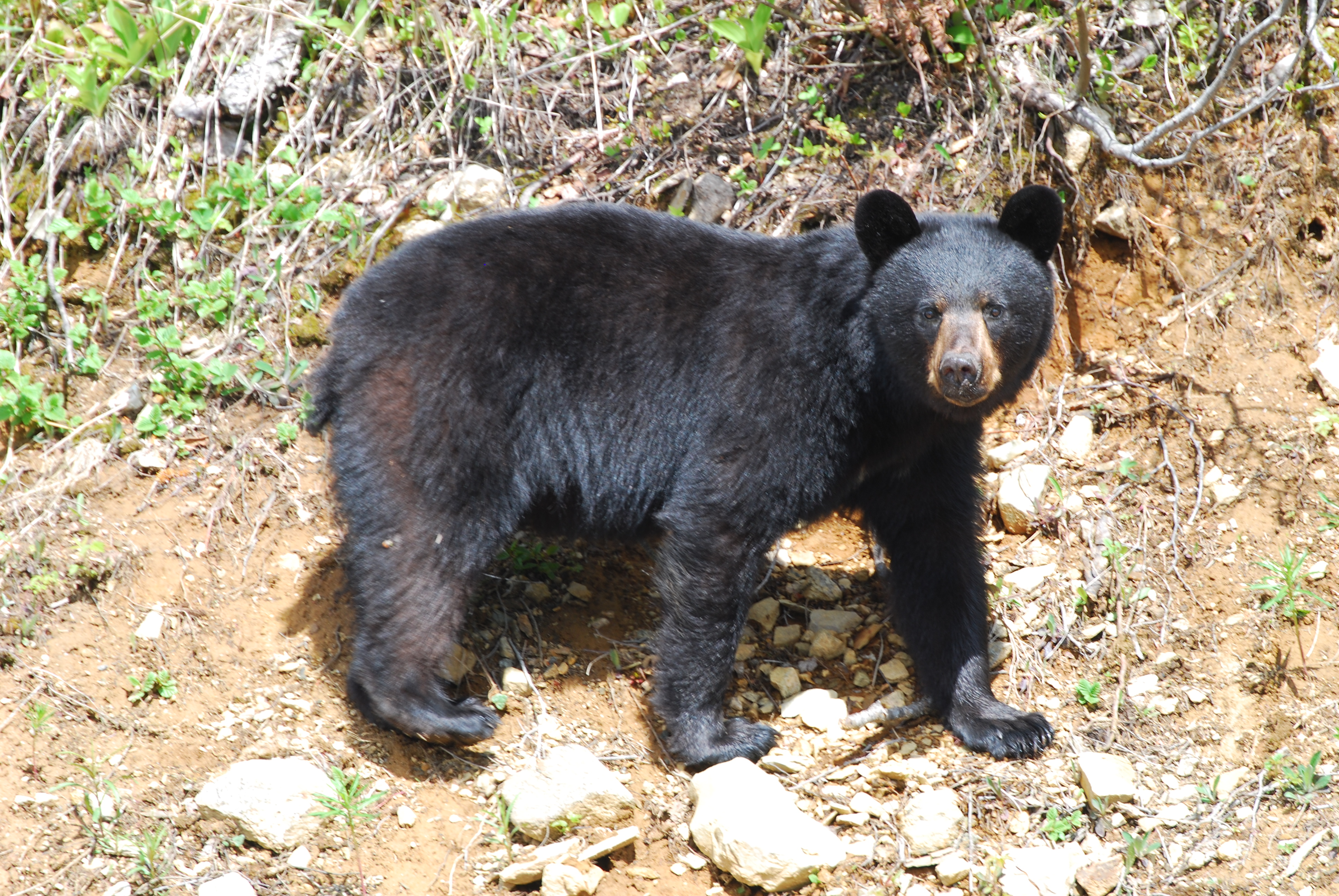 This photo was taken in a protected area in Canada, Wikidata item Gros Morne National Park (Q257598)